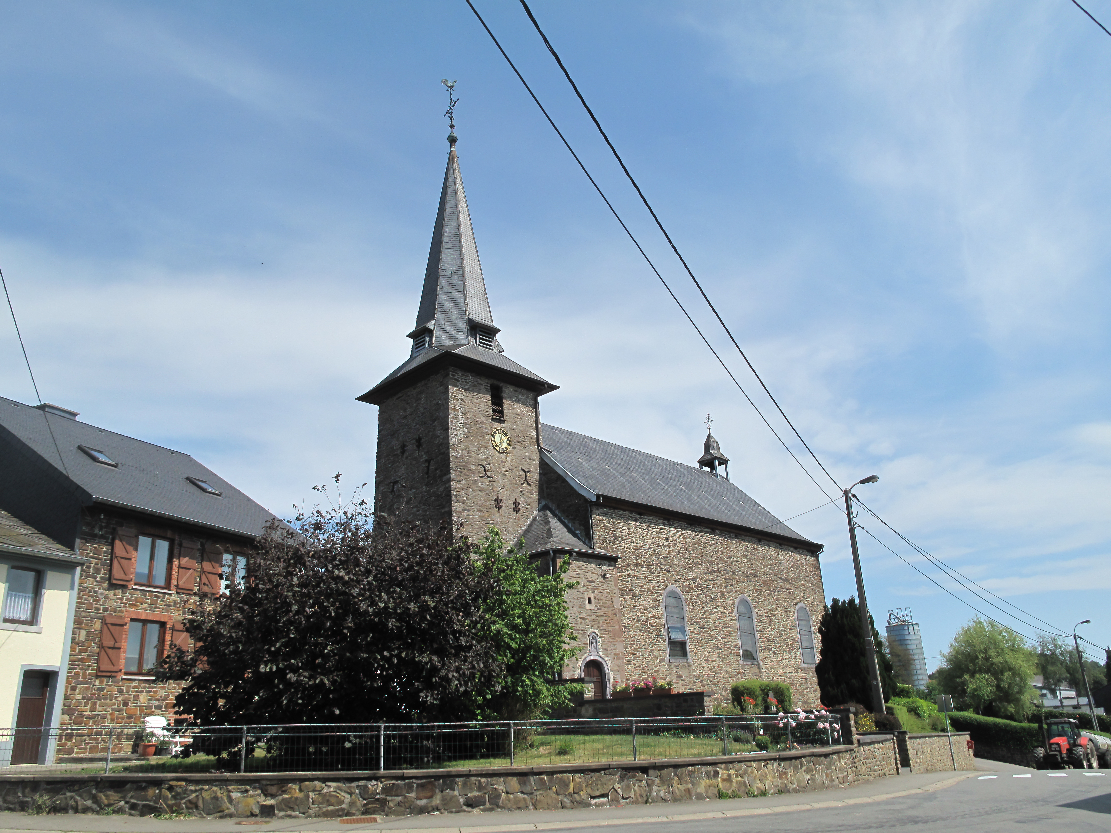 Espeler, church